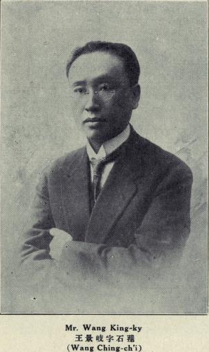 Wang Jingqi (Wang Ching-ch'i; Wang King Ky) (1882 - 1941)